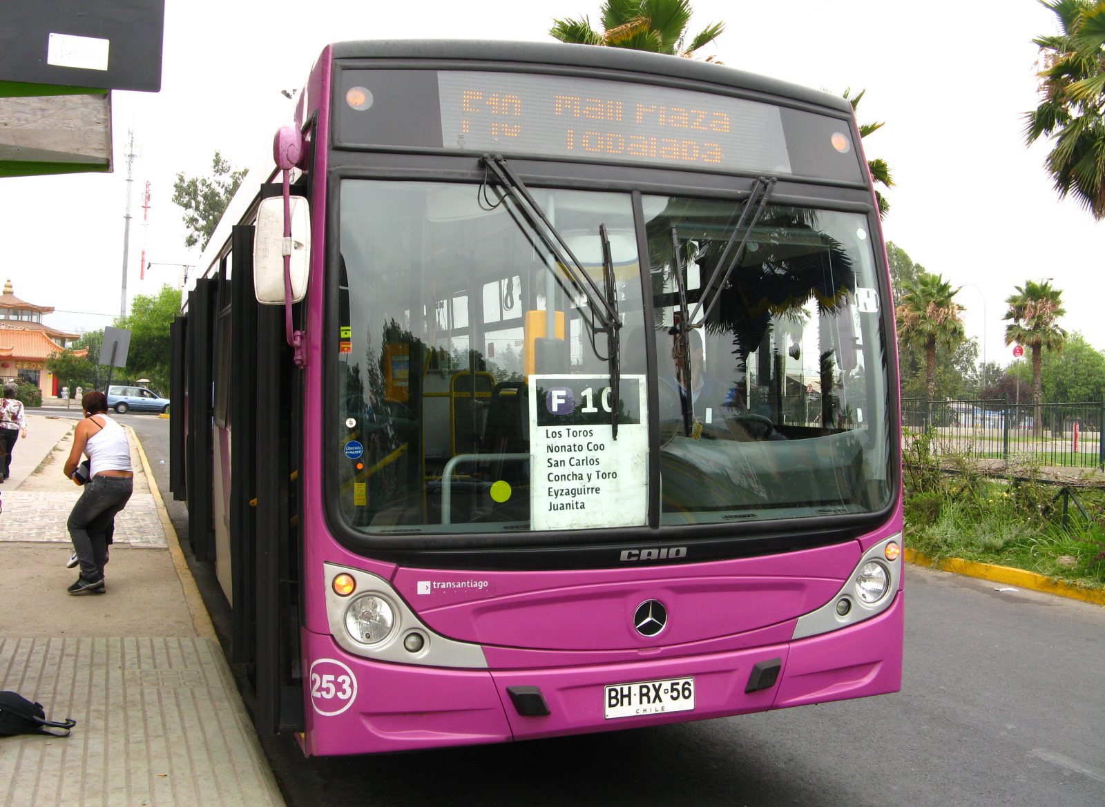 CAIO bus (reg. BH-RX-56, #253) in Santiago de Chile, Chile. Transantiago operator.